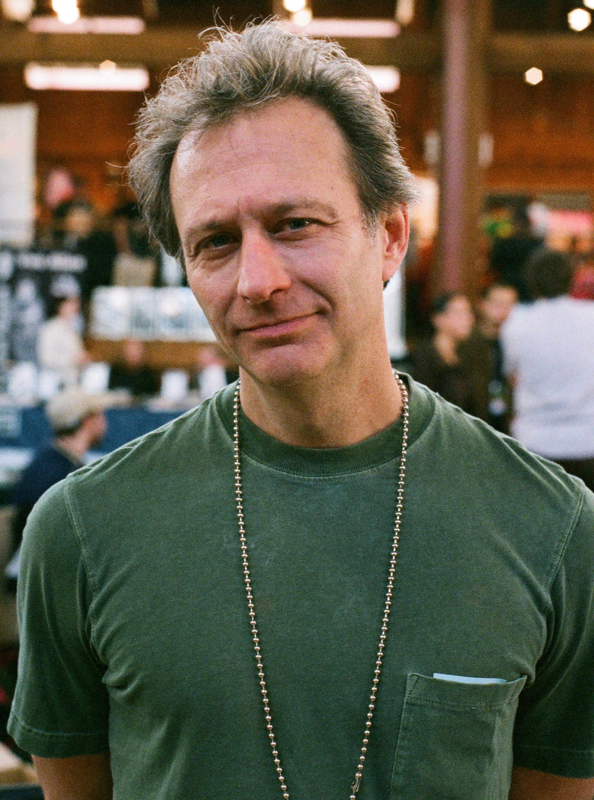 Photo of Gary Groth at the Alternative Press Expo.